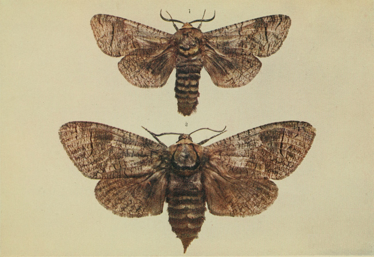 Plate 150. DescriptionBinomial in textGoat Moth.Cossus cossus